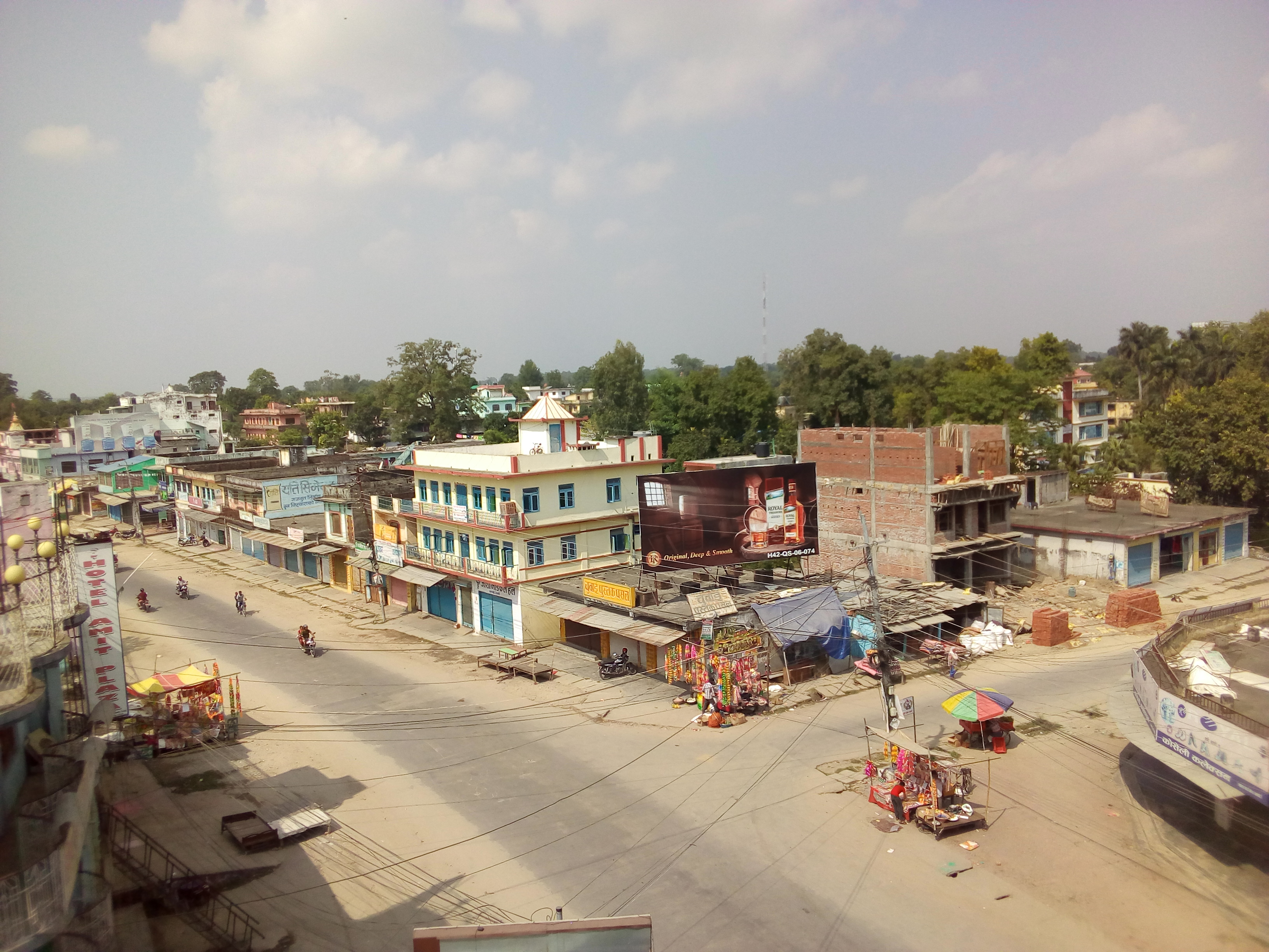 This is the center of the city. This is the view of Parkchowk during Dashain.